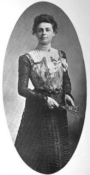 Mrs. Ernest W. Roberts of Chelsea, Massachusetts, formerly of St. Albans, Vermont